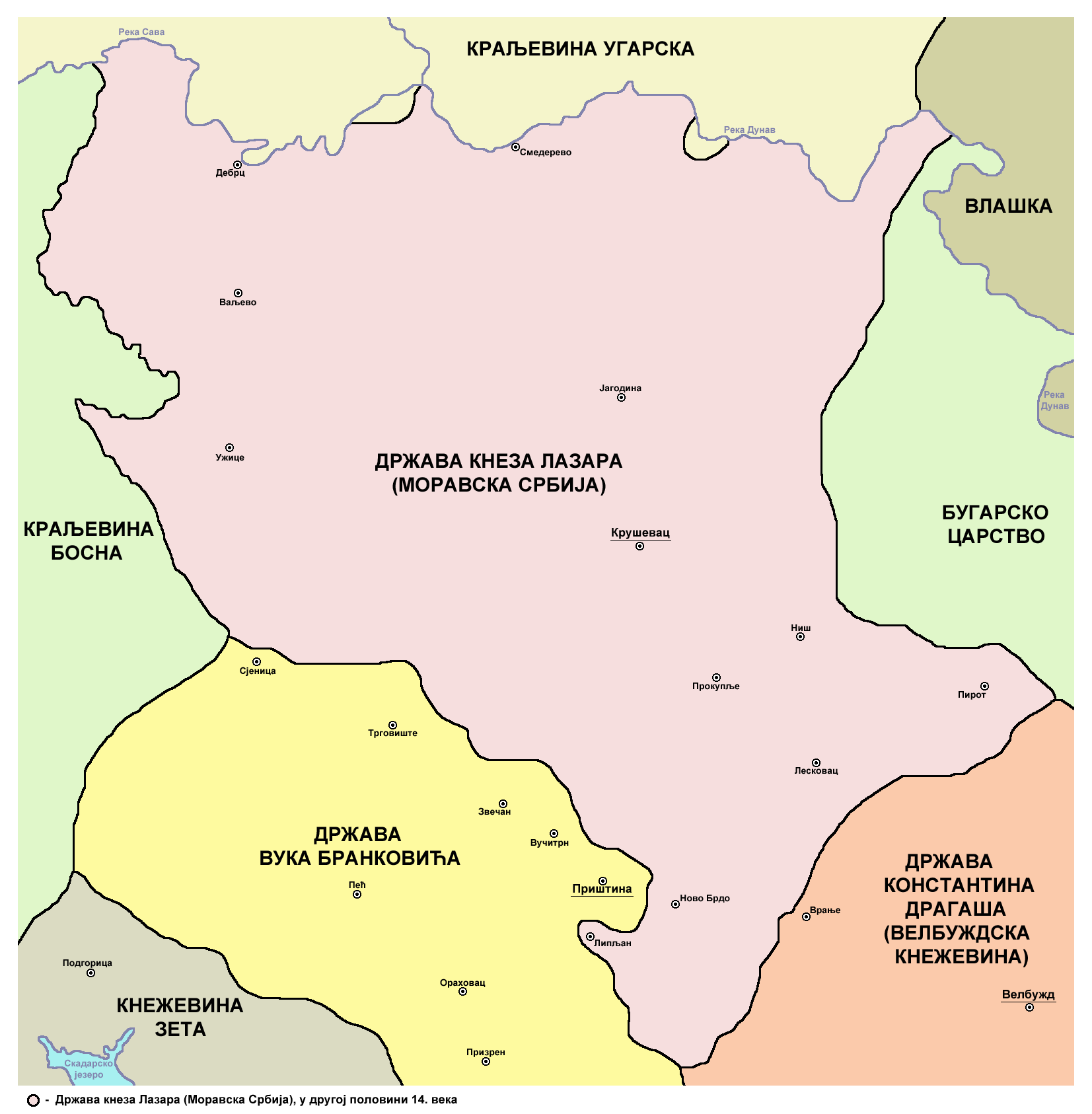 Realm of Prince Lazar (Moravian Serbia) in the second half of the 14th century.